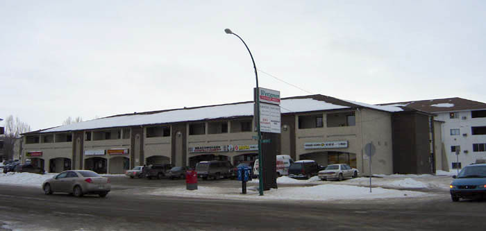 Westgreen Plaza, Meadowgreen, Confederation SDA, Saskatoon, Saskatchewan, Canada